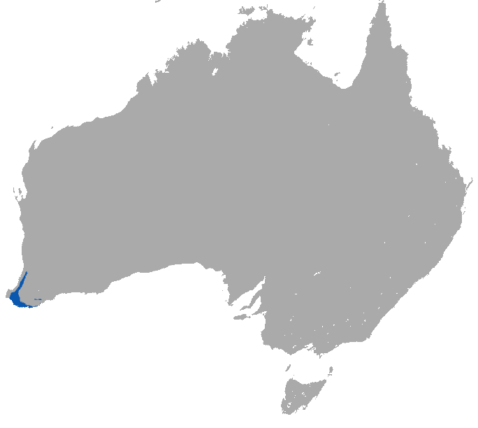 Quokka (Setonix brachyurus) range